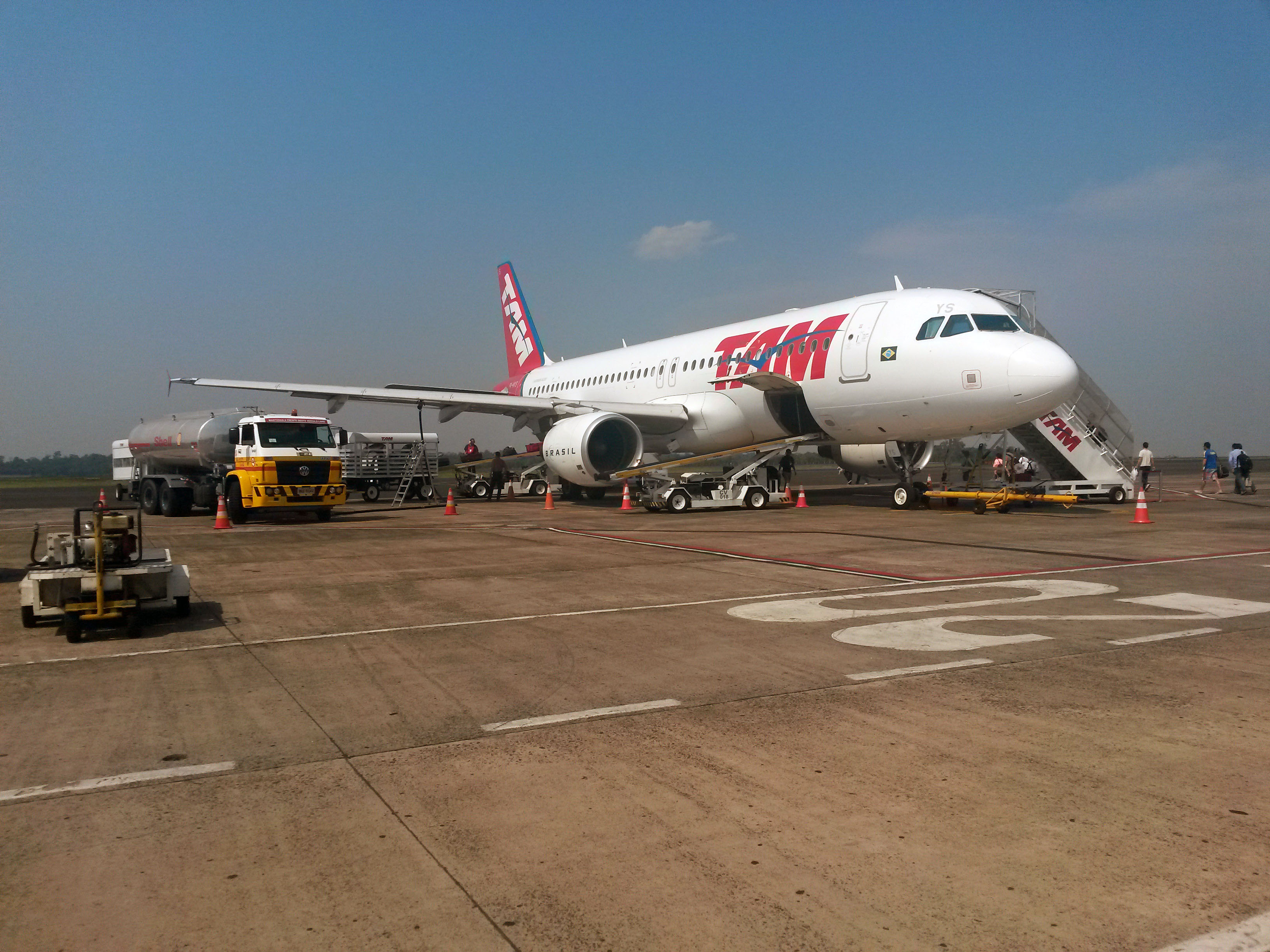 Tam Airbus A320 refueling.